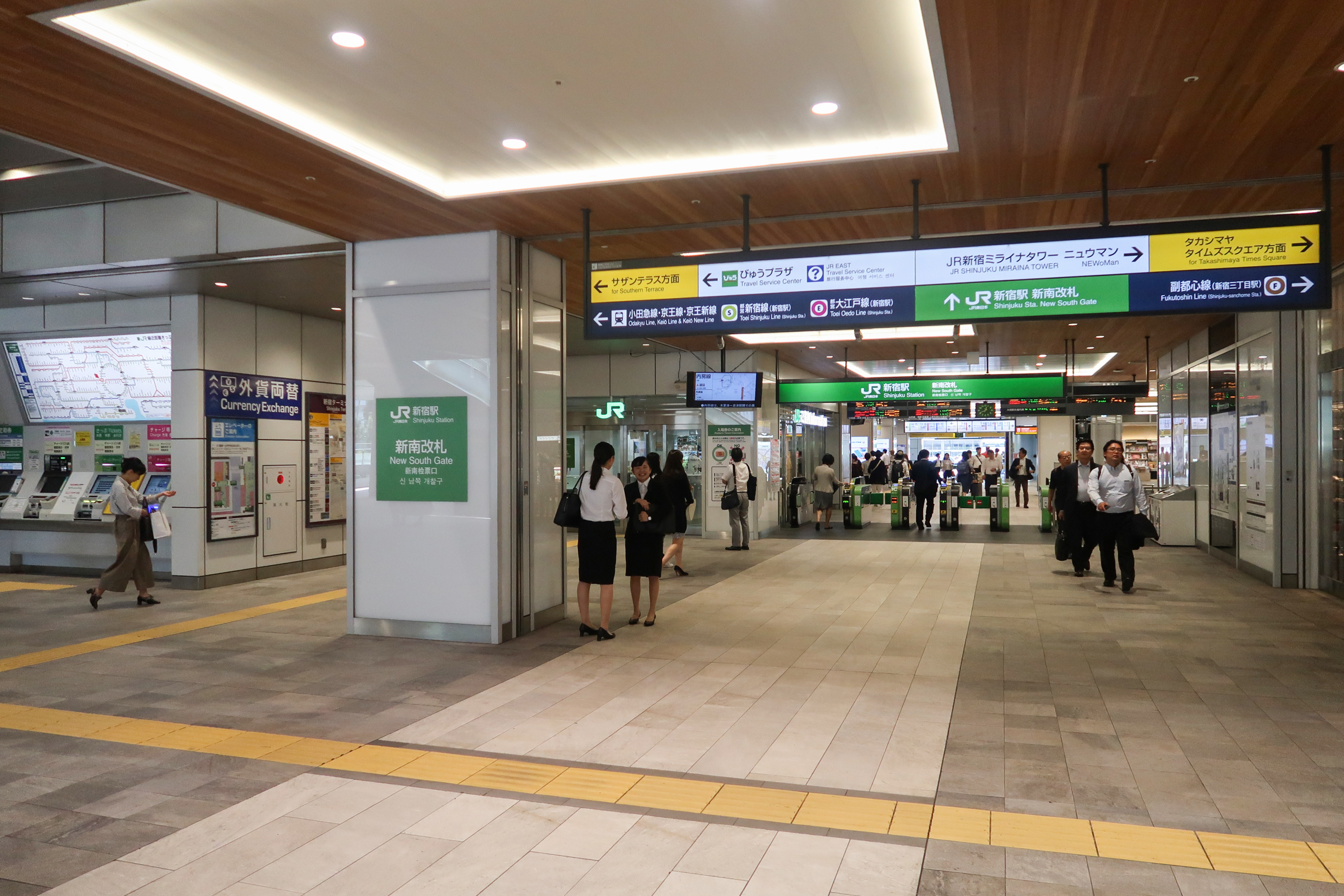 Shinjuku Station New South Gate